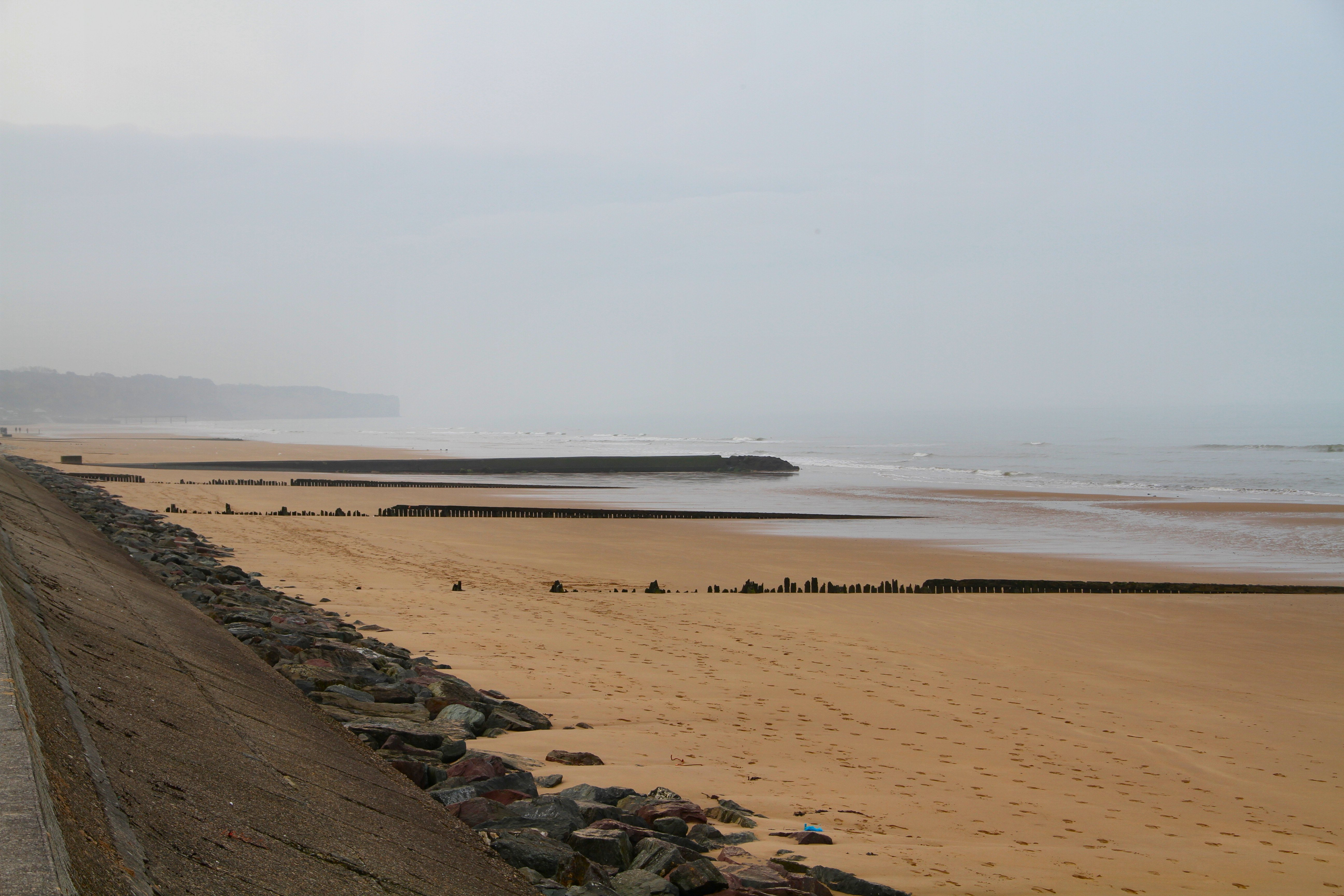 Omaha beach, Dog red & Dog white sectors, at Saint-Laurent sur Mer, Normandy. One of the D-Day beaches. Taken at saint-laurent sur Mer, February 2011